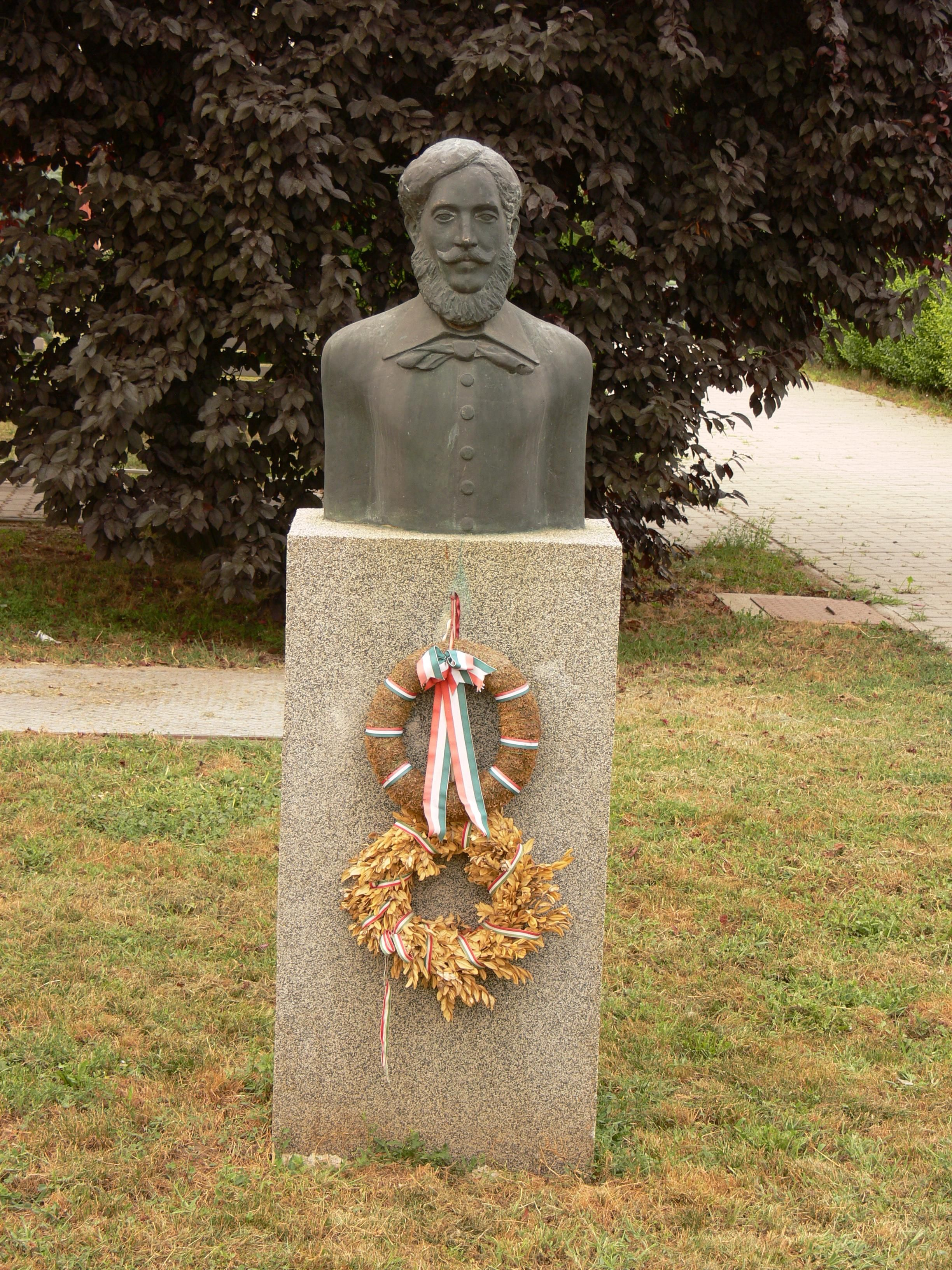 Zoltán Csemniczky: Statue of Lajos Kossuth